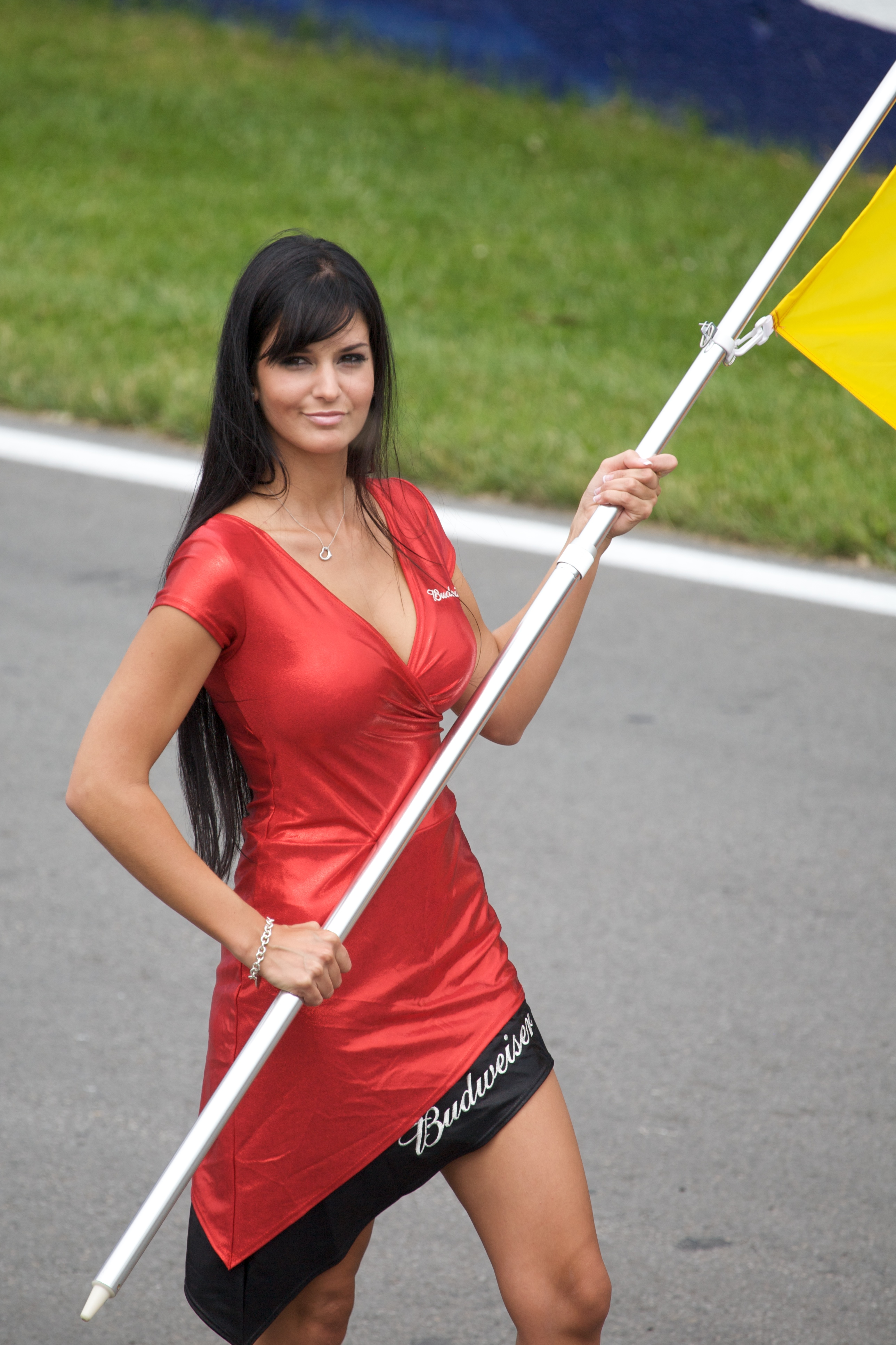 Budweiser girl, 2008 Canadian Grand Prix.